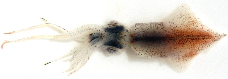 Sparkling Enope Squid This image is derived from File:Watasenia_scintillans.jpg, rotated 90 degrees and cropped to minimise whitespace.